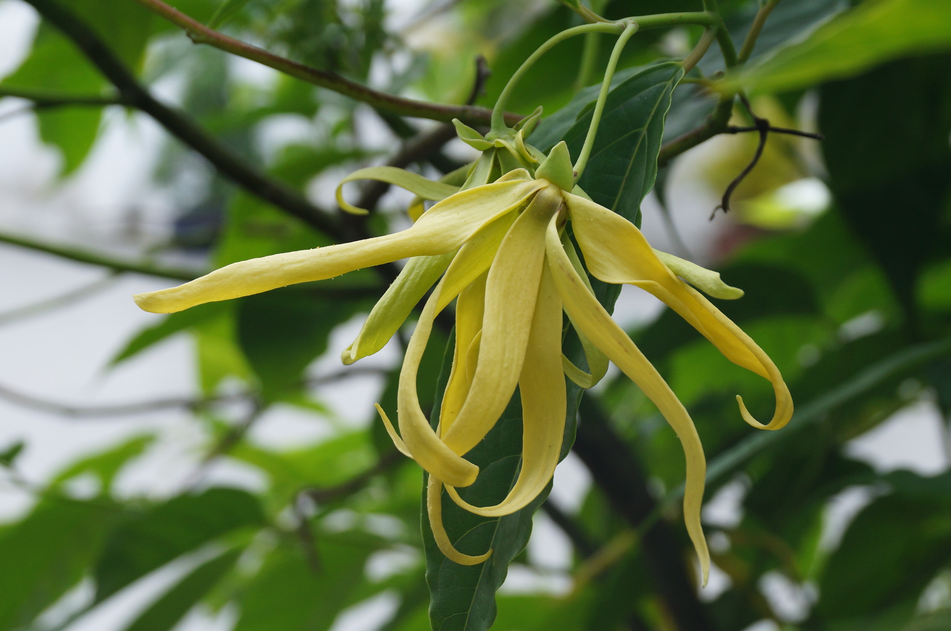 Ylang-ylang